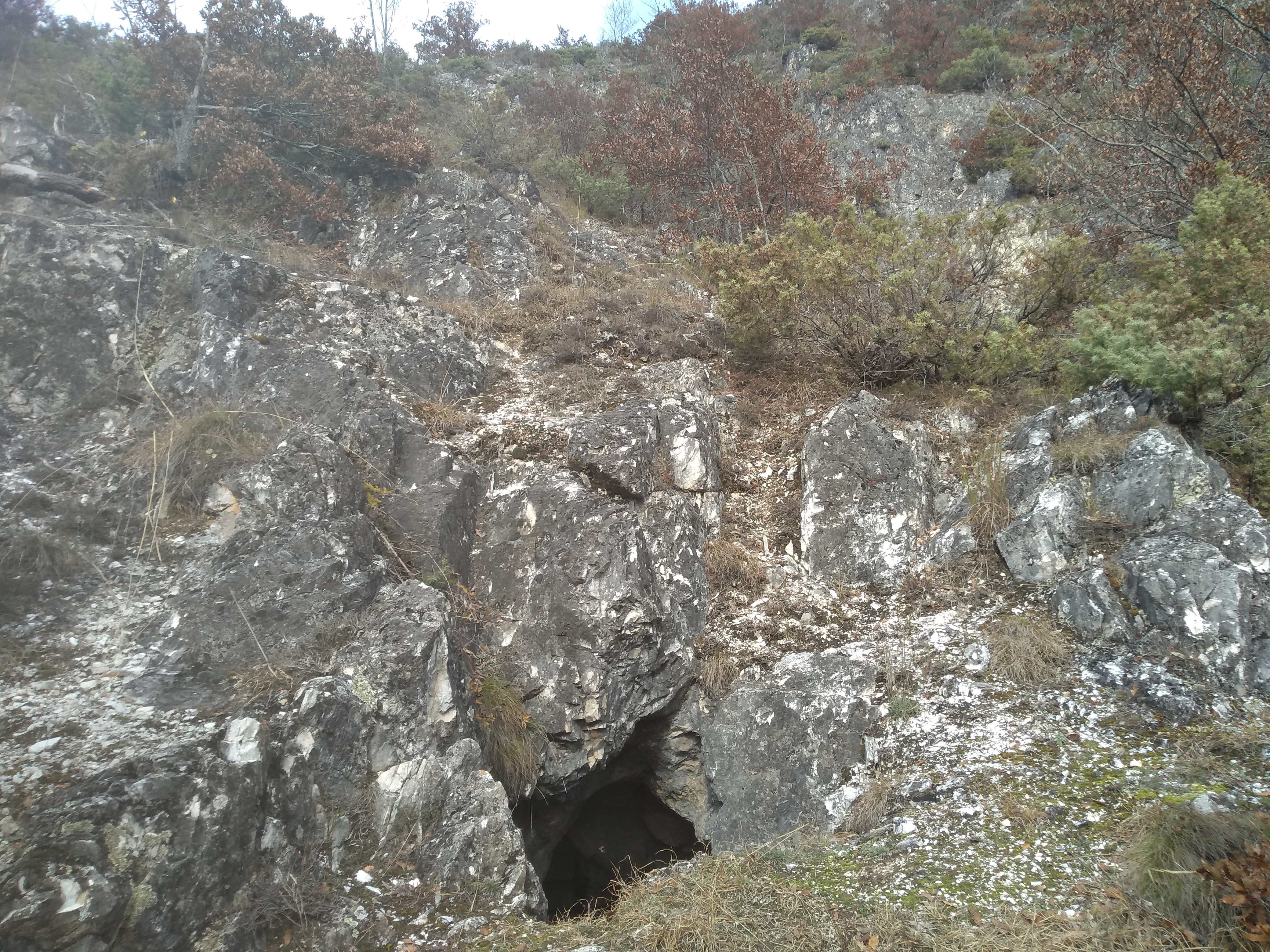 Upper Slatina Cave in Porece region, Macedonia